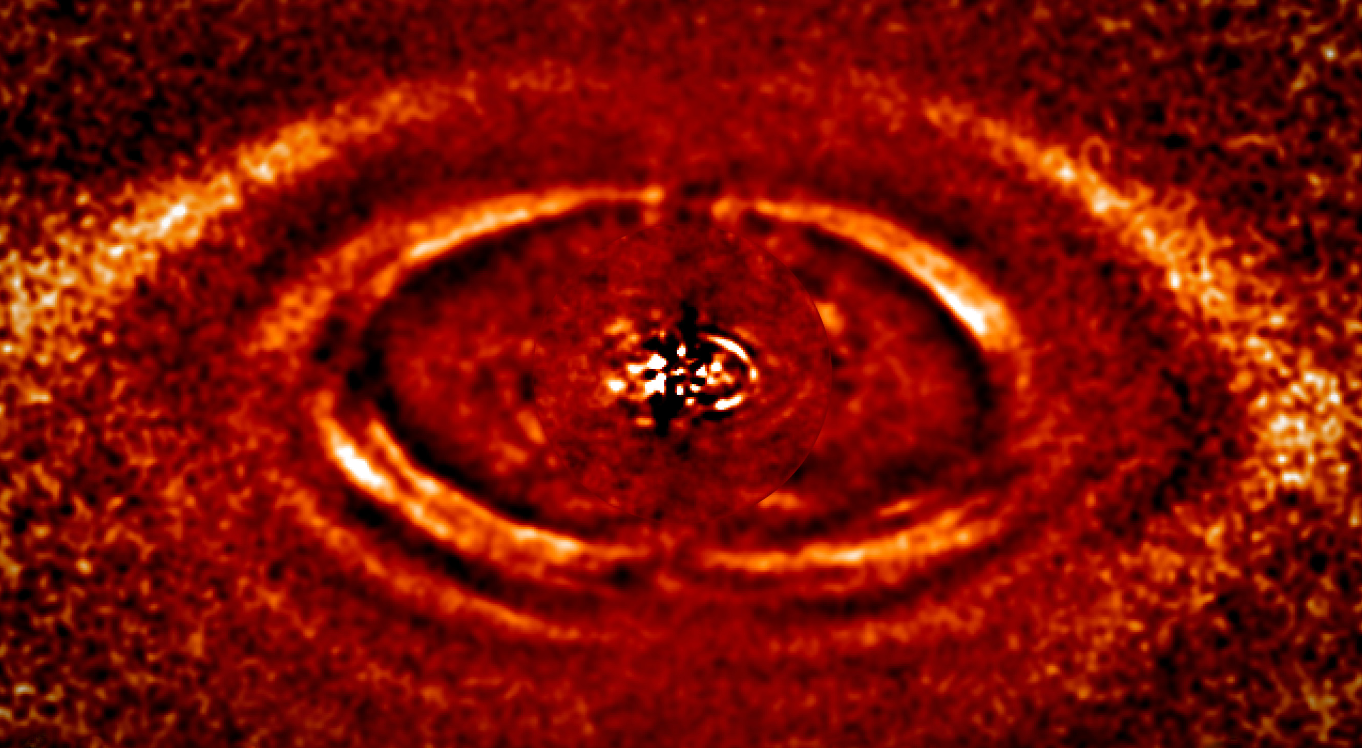 This Picture of the Week illustrates the remarkable capabilities of SPHERE (the Spectro-Polarimetric High-contrast Exoplanet REsearch instrument), a planet-hunting instrument mounted on ESO’s Very Large Telescope (VLT) in Chile: It shows a series of broken rings of dust around a nearby star. These concentric rings are located in the inner region of the debris disc surrounding a young star named HD 141569A, which sits some 370 light-years away from us. In this image we see what is known as a transition disc, a short-lived stage between the protoplanetary phase, when planets have not yet formed, and a later time when planets have coalesced, leaving the disc populated only by any remaining — and predominantly dusty — debris. What we see here are structures formed of dust, revealed for the first time in near-infrared light by SPHERE — at a high enough resolution to capture remarkable detail! The area shown in this image has a diameter of just 200 times the Earth–Sun distance. Several features are visible, including a bright, prominent ring with well-defined edges — so asymmetric that it appears as a half-ring — multiple clumps, several concentric ringlets, and a pattern akin to a spiral arm. It is significant that these structures are asymmetric; this may reflect an uneven, or clumpy, distribution of dust in the disc, something for which astronomers do not currently have a firm explanation. It is possible that this phenomenon is caused by the presence of planets, but so far no planets of sufficient size to do this have been found in this system.